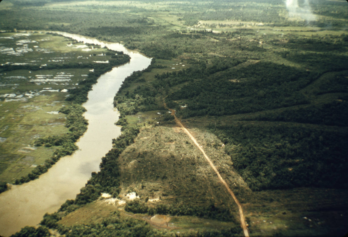 Operation Kunia was initiated in the Ho Bo Woods area along the Saigon river near Cu Chi on the 20th of September. Much of the area of operations can be seen in this photograph.